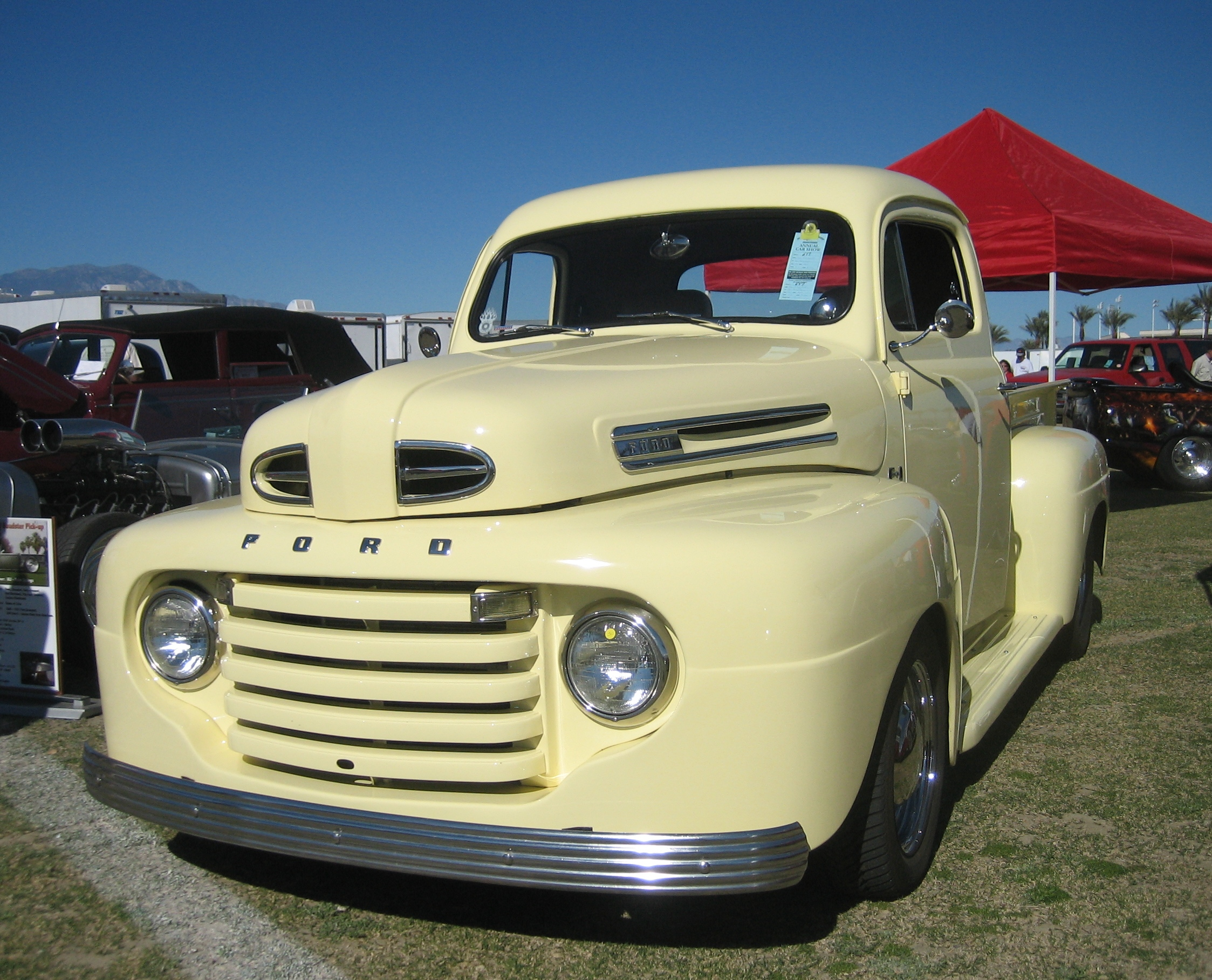 1950 Ford F-1 Pickup Truck